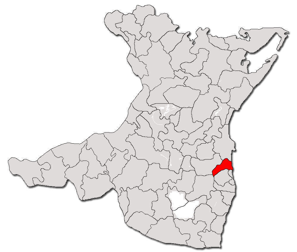 Contour map of commune Agigea